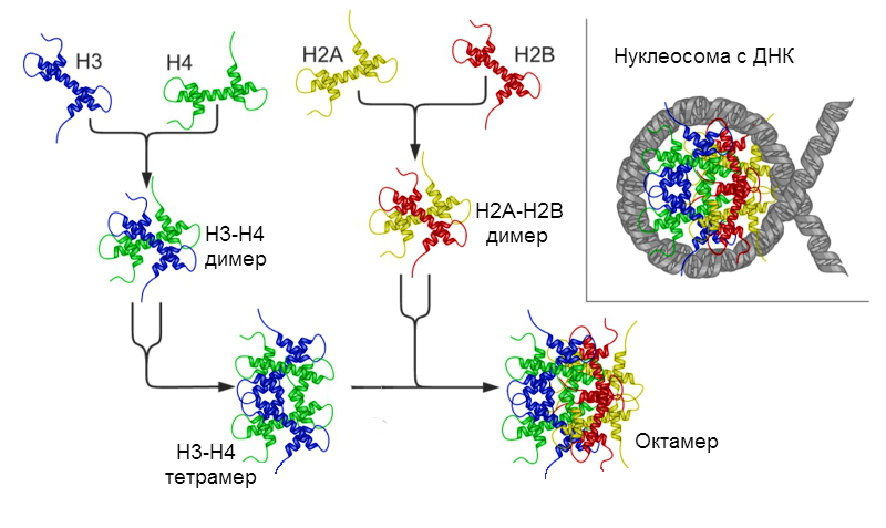 Schematic representation of the assembly of the core histones into the nucleosome